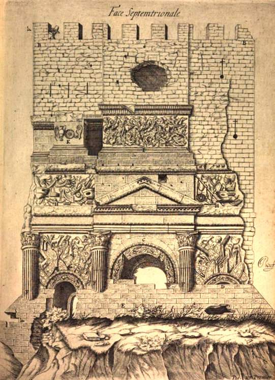 Arch of Orange as seen and published by Joseph de La Pise in 1640, showing the medieval modifications by Raymond des Baux